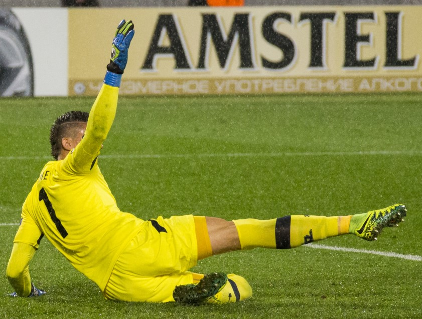 Sergio Rochet